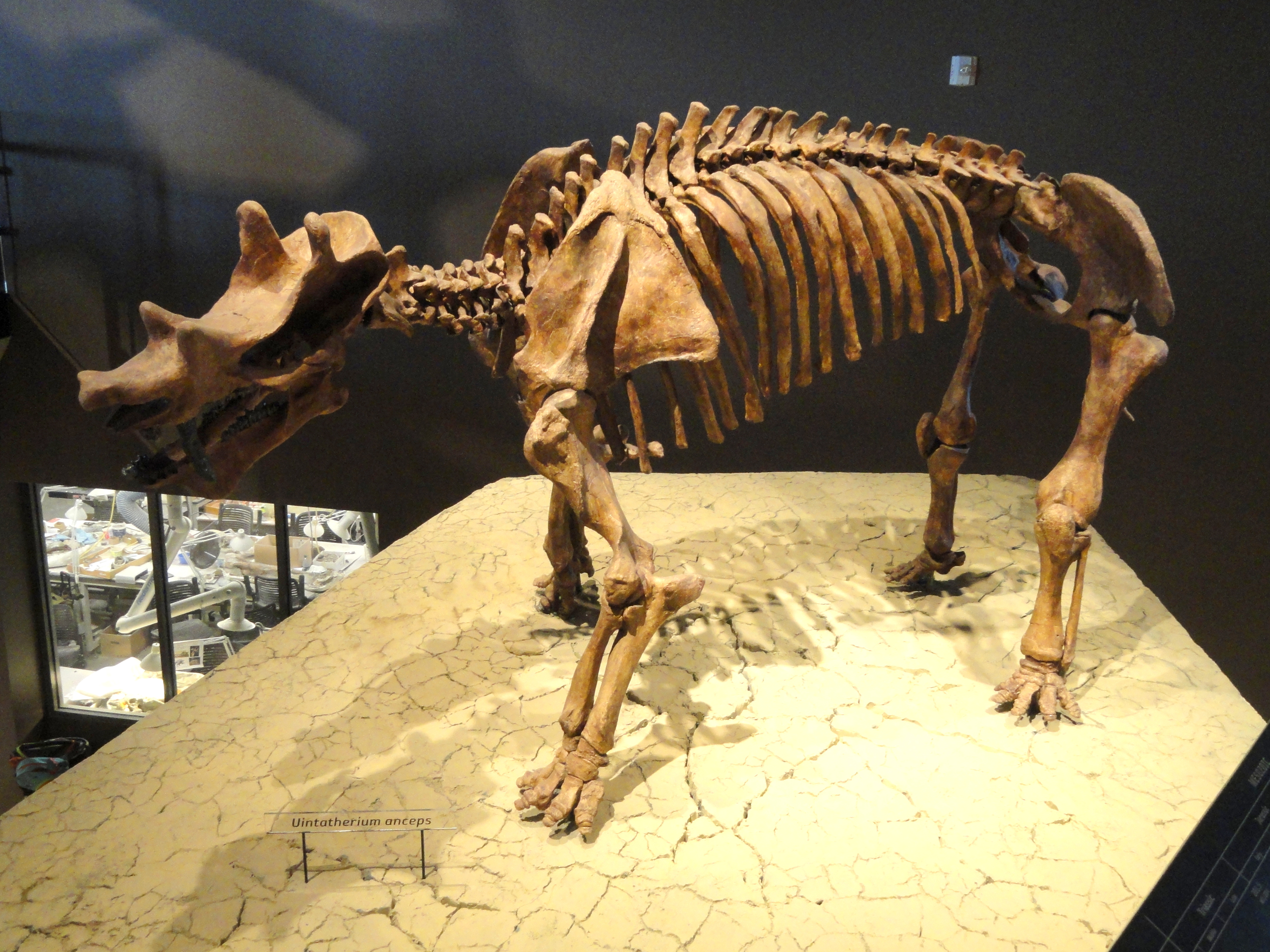 Fossil specimen in the Natural History Museum of Utah, Salt Lake City, Utah, USA.